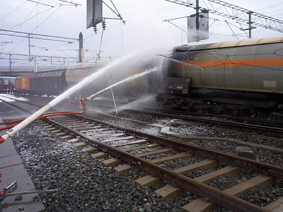 Cooling down of the tanks in progress